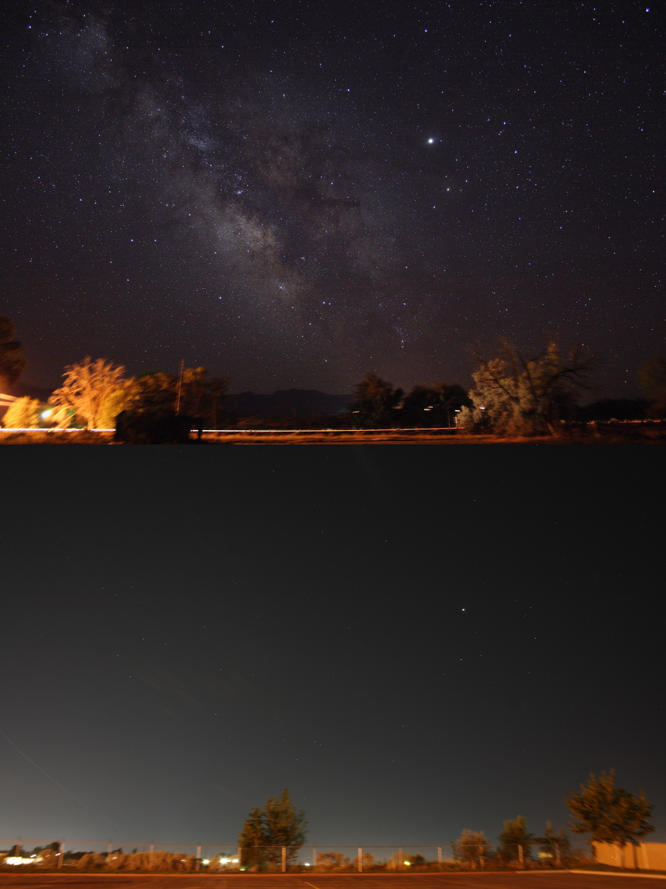 Comparison showing the effects of light pollution on viewing the sky at night. The southern sky, featuring Sagittarius and Scorpius. Top - Leamington, UT, pop. 217 Bottom - Orem, UT, in a metropolitan area of ~400,000 I've attempted to match sky brightness to how it appeared to my eyes.